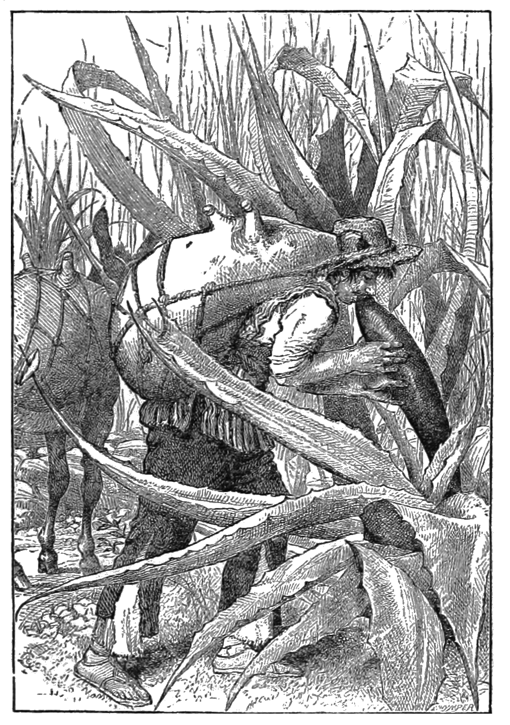 Pulque tlachiquero